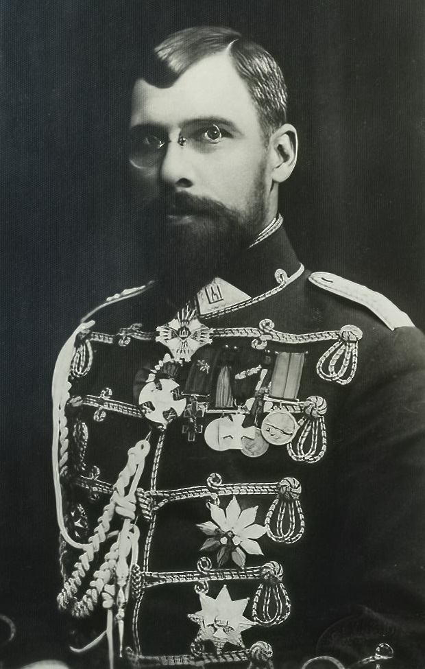 Povilas Plechavičius (1890-1973) was an Imperial Russian and then Lithuanian military officer and statesman. In the service of Lithuania he rose to the rank of General of the army in the interwar period. He is best known for his actions during the Lithuanian Wars of Independence, for organizing the 1926 Lithuanian coup d'état and for leading a Lithuanian self-defence force during the German occupation of Lithuania.